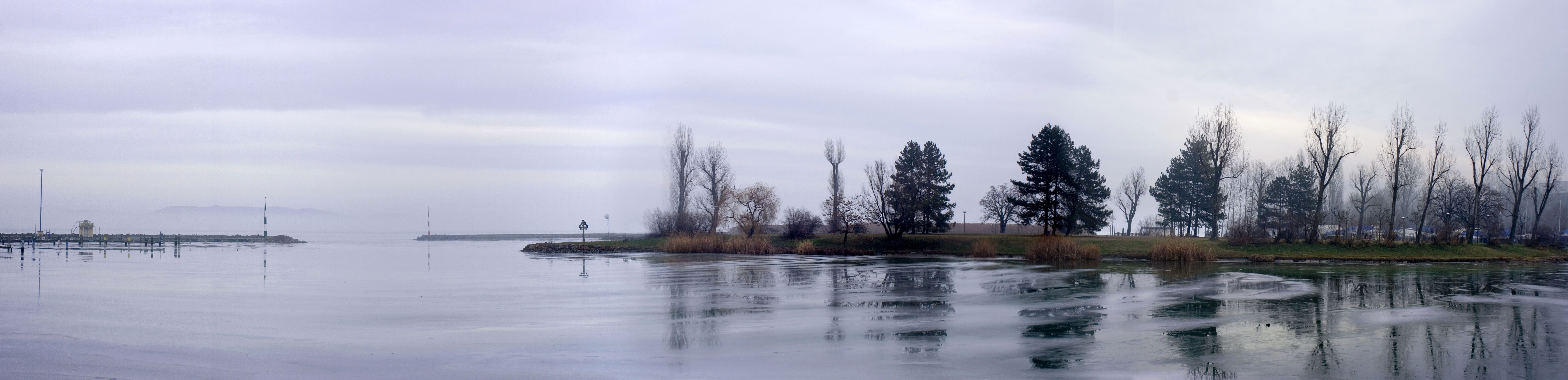 In the winter the lake Balaton, the empty port Balatonföldvár - Hungary